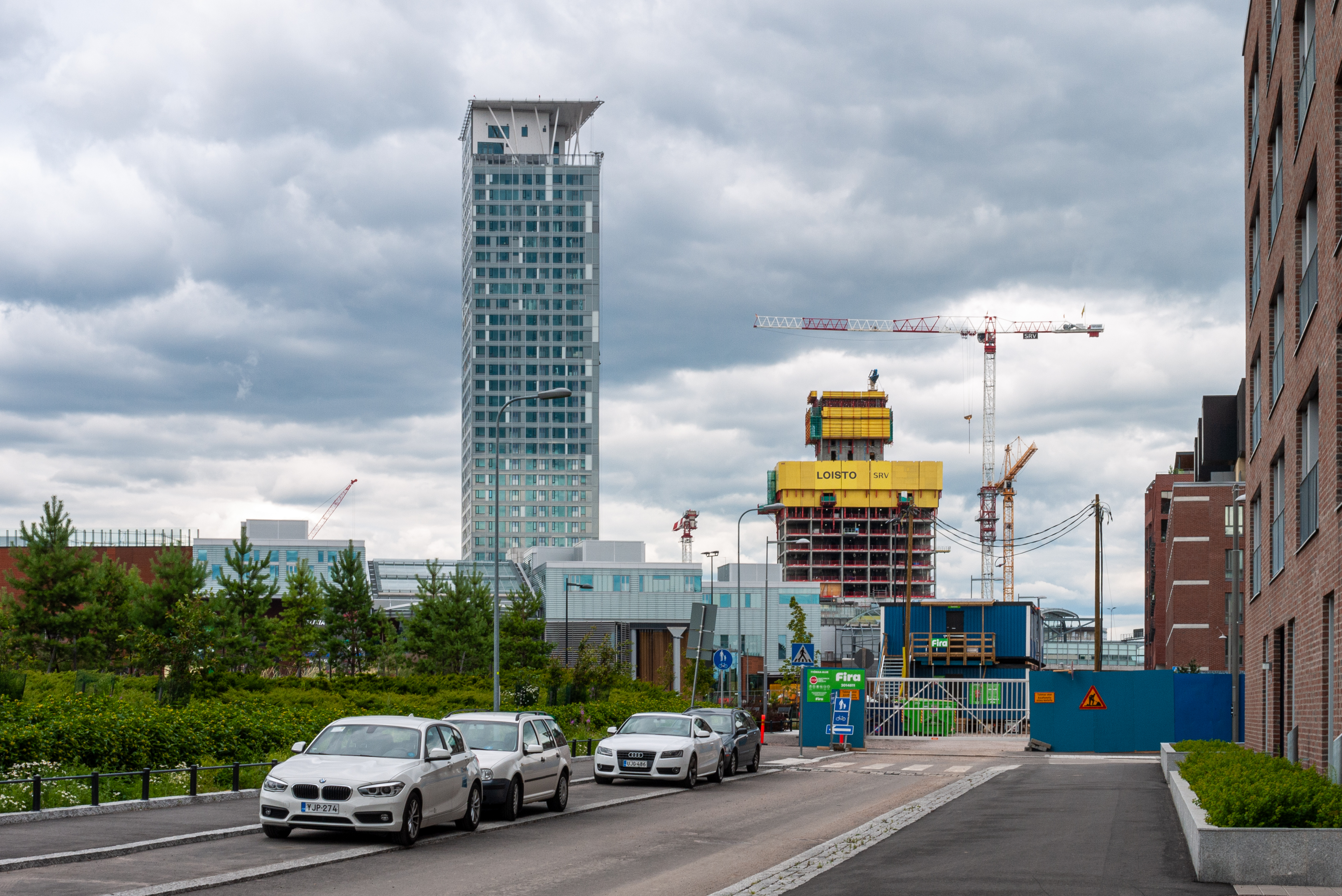 Majakka (mostly finished) and Loisto (under construction) apartment buildings in Kalasatama, Helsinki, Finland.